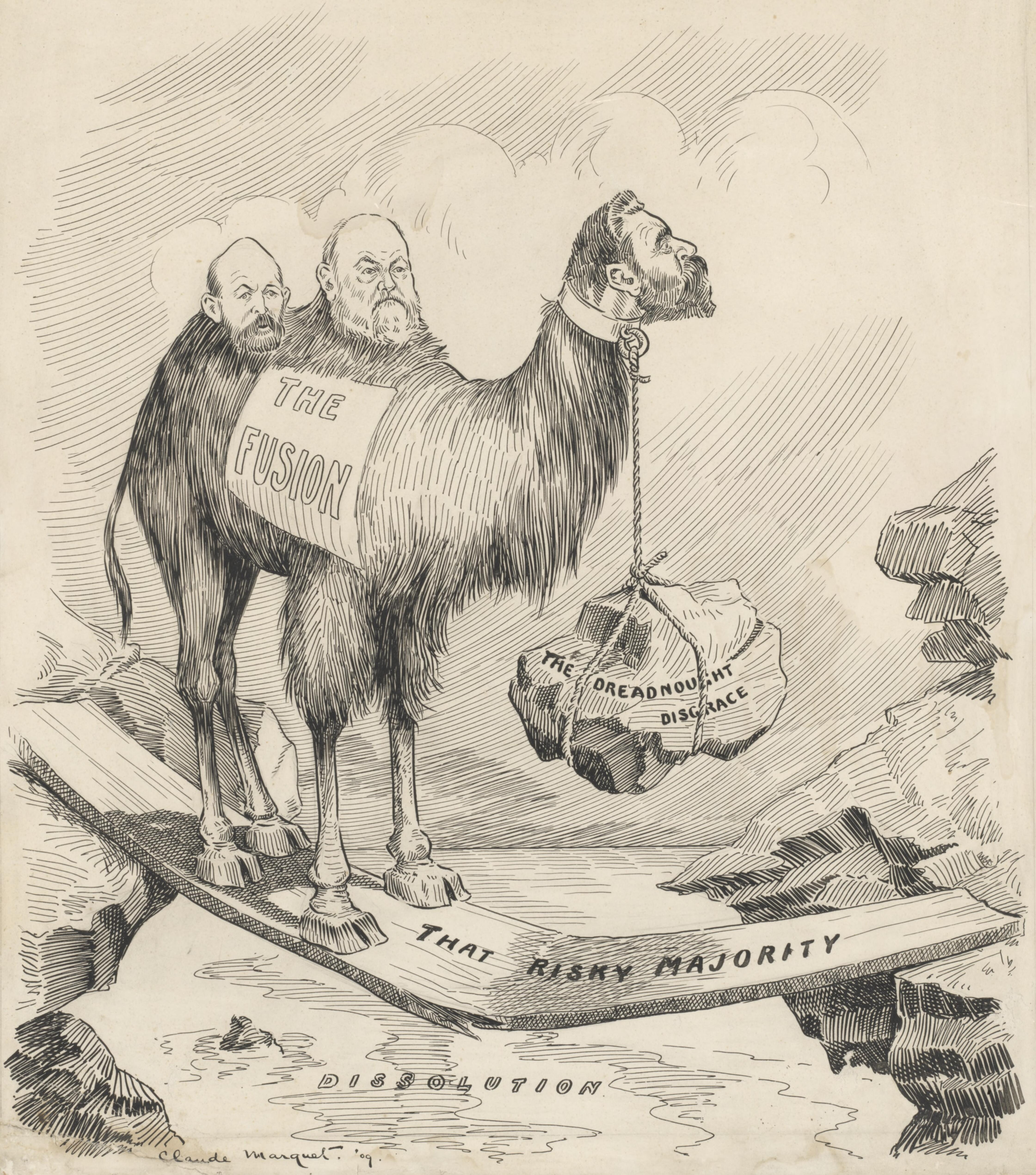 Cartoon titled "It will sink them" by Claude Marquet. It depicts the formation of the Commonwealth Liberal Party, commonly referred to as the "Fusion". The party's leader Alfred Deakin is shown as the head of a camel with John Forrest and Joseph Cook as its humps. The Dreadnought affair - the controversial acquisition of HMAS Australia - is shown as a loadstone around the camel's neck as it tries to cross over a cliff ("that risky majority", the party's small majority in parliament).